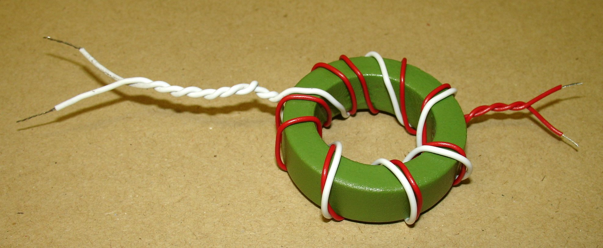 An example of magnetic toroidal core - sample used in investigation of magnetic power loss and permeability (size approx. 50 mm across). Red wire - secondary winding, white wire - primary (magnetising) winding.